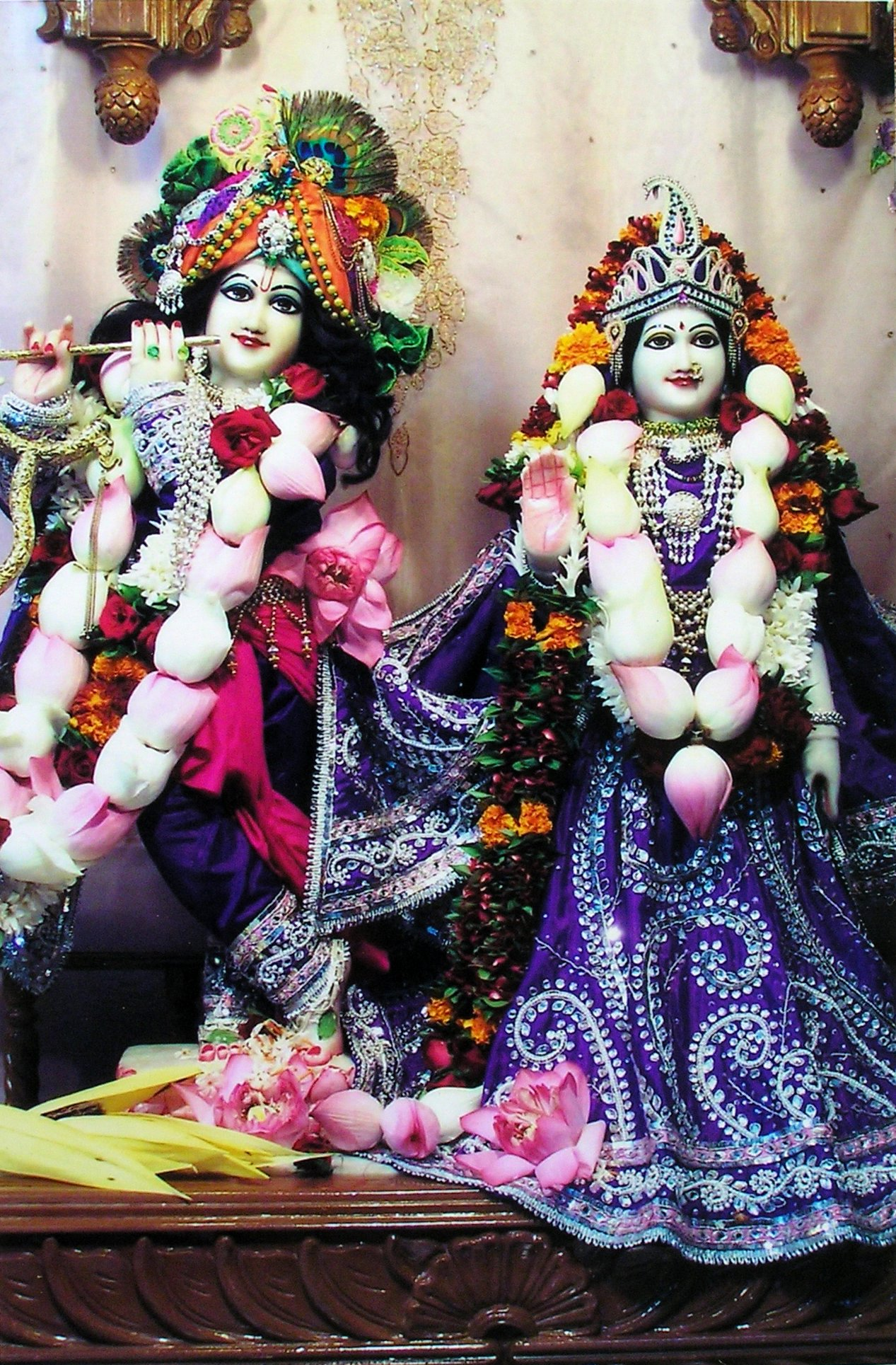 Hi is the Creator of this Universe, He is the source of origin...Lord Krishna.